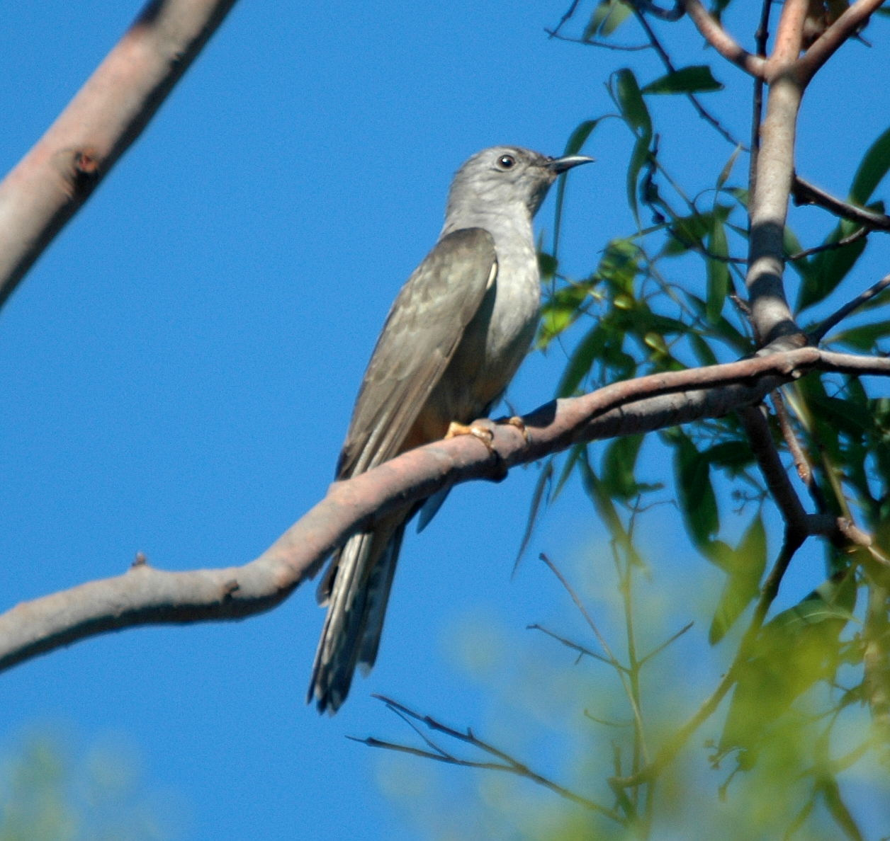 Brush_Cuckoo (Cacomantis variolosus) Kobble Creek, SE Queensland, Australia